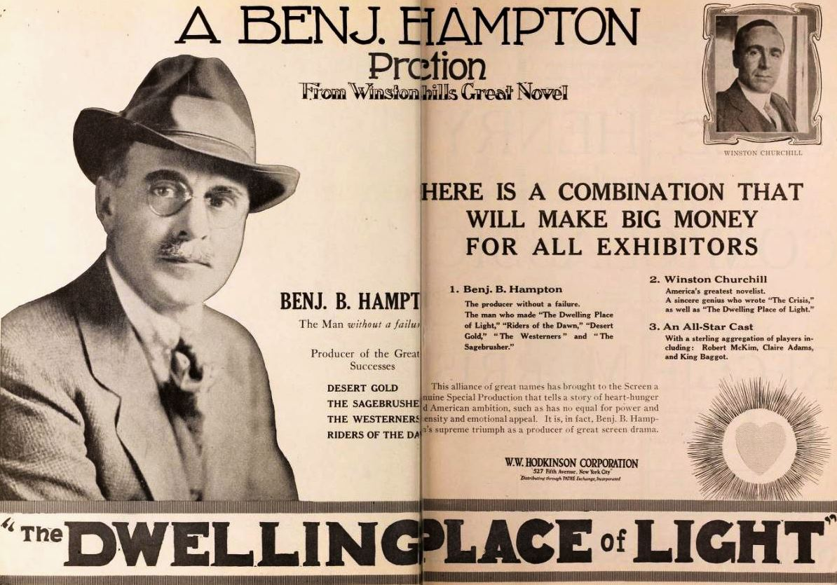 Advertisement for the American drama film The Dwelling Place of Light (1920) with author Winston Churchill and producer Benjamin B. Hampton, on pages 16 and 17 on August 21, 1920 Exhibitors Herald.